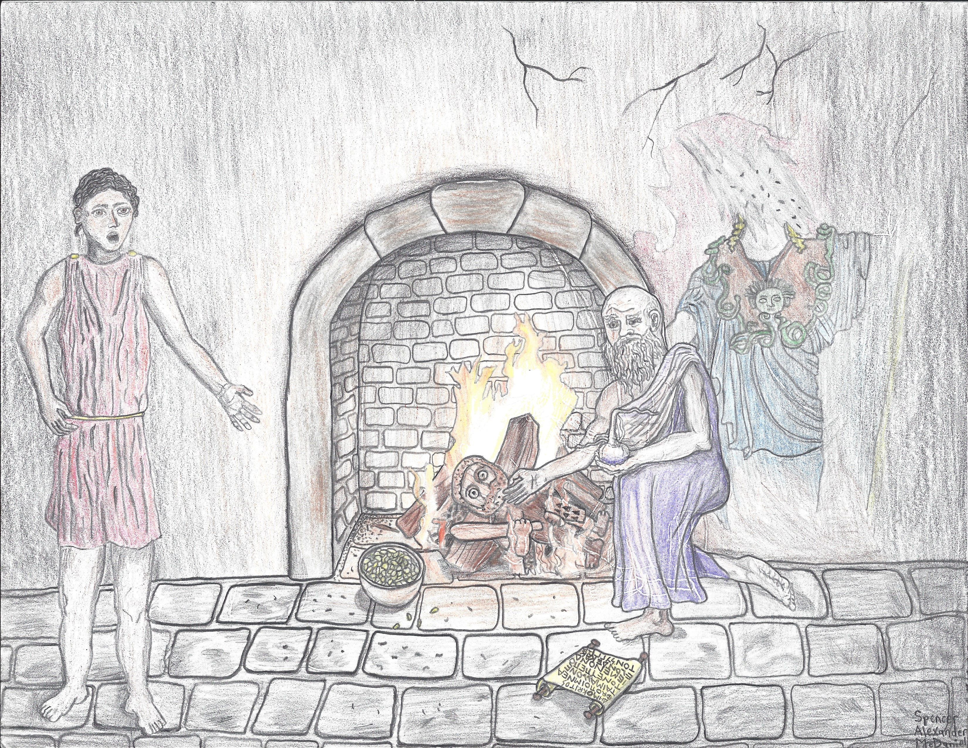 This is a pencil illustration drawn by Spencer Alexander McDaniel depicting a famous legend about the ancient Greek poet Diagoras of Melos, who is said to have burned a statue of Herakles to roast his lentils. This illustration was started in early 2018 and completed in March 2020. In this picture, the elderly Diagoras is kneeling beside the fire where the wooden statue of Herakles is burning. Behind him on the wall is a badly damaged fresco of the goddess Athena. Beside him, lies a papyrus scroll containing writings of Demokritos of Abdera. Diagoras's son watches him burning the statue in horror from across the room. No one knows what Diagoras really looked like; this representation is imaginary. The anecdote depicted here is attested in ancient sources, but it is probably apocryphal.